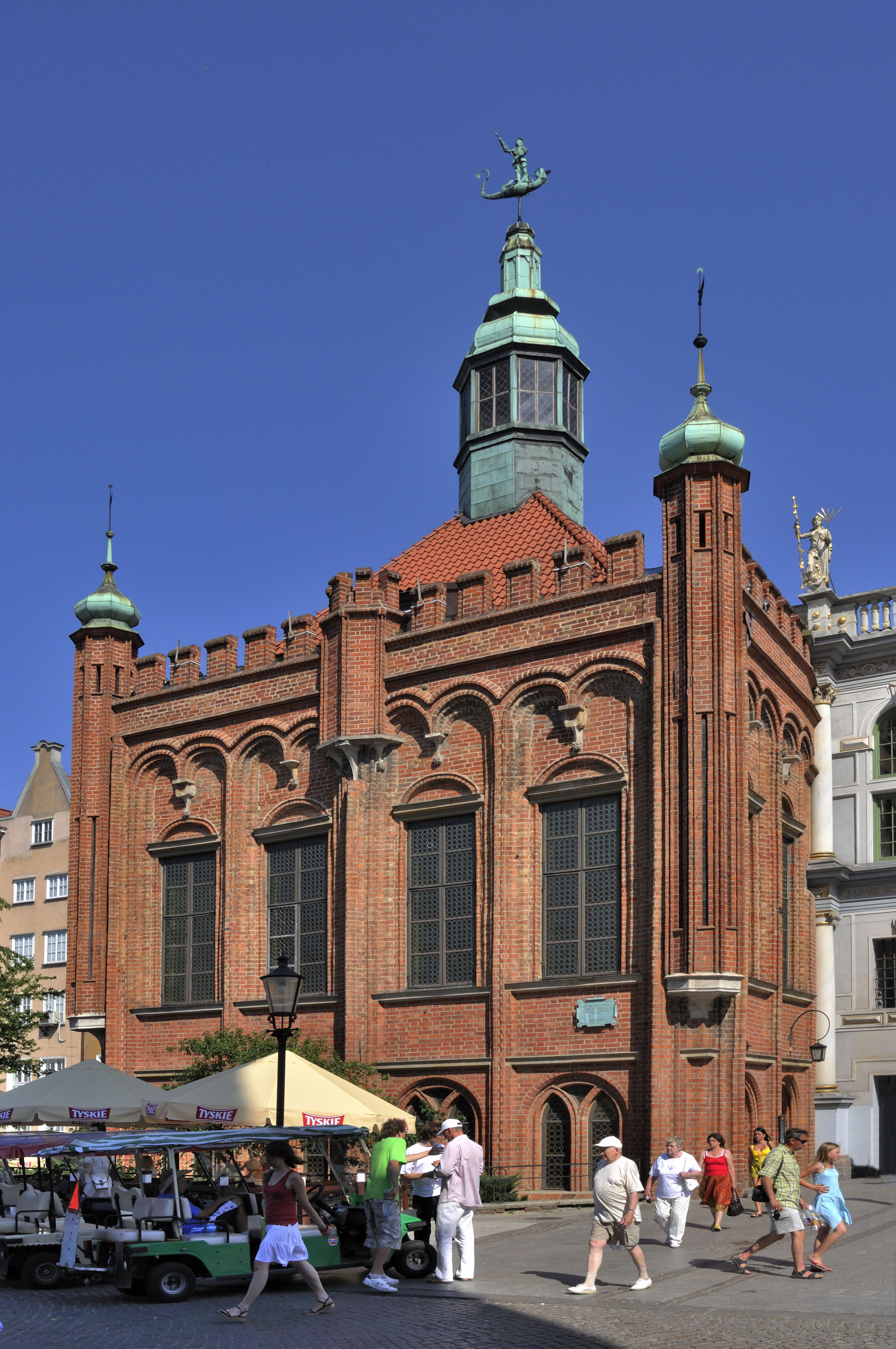 Picture taken in Gdańsk after Wikimania 2010 conference.